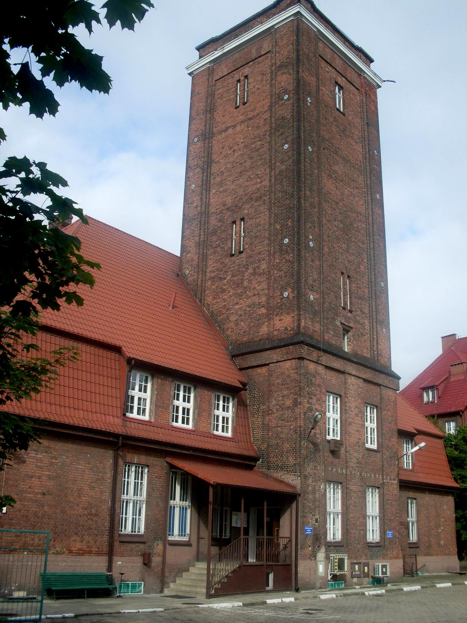 Former buildings of Faculty of Biology of Gdańsk University at Legionów Street 9 in Gdańsk.